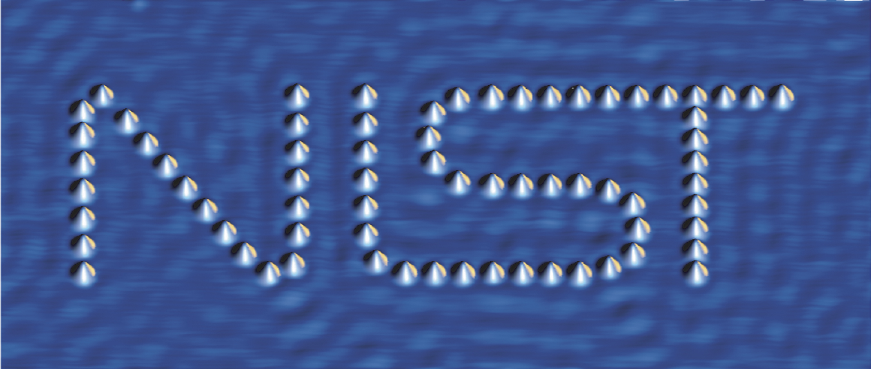 A 40-nanometer-wide NIST logo made with cobalt atoms on a copper surface. The ripples in the background are made by electron waves